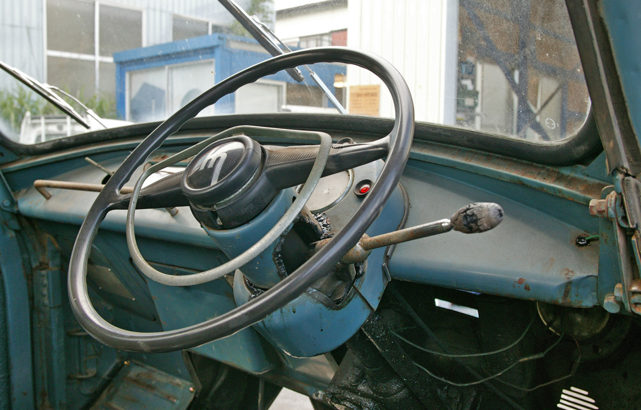 Mazda T1500 three wheeler